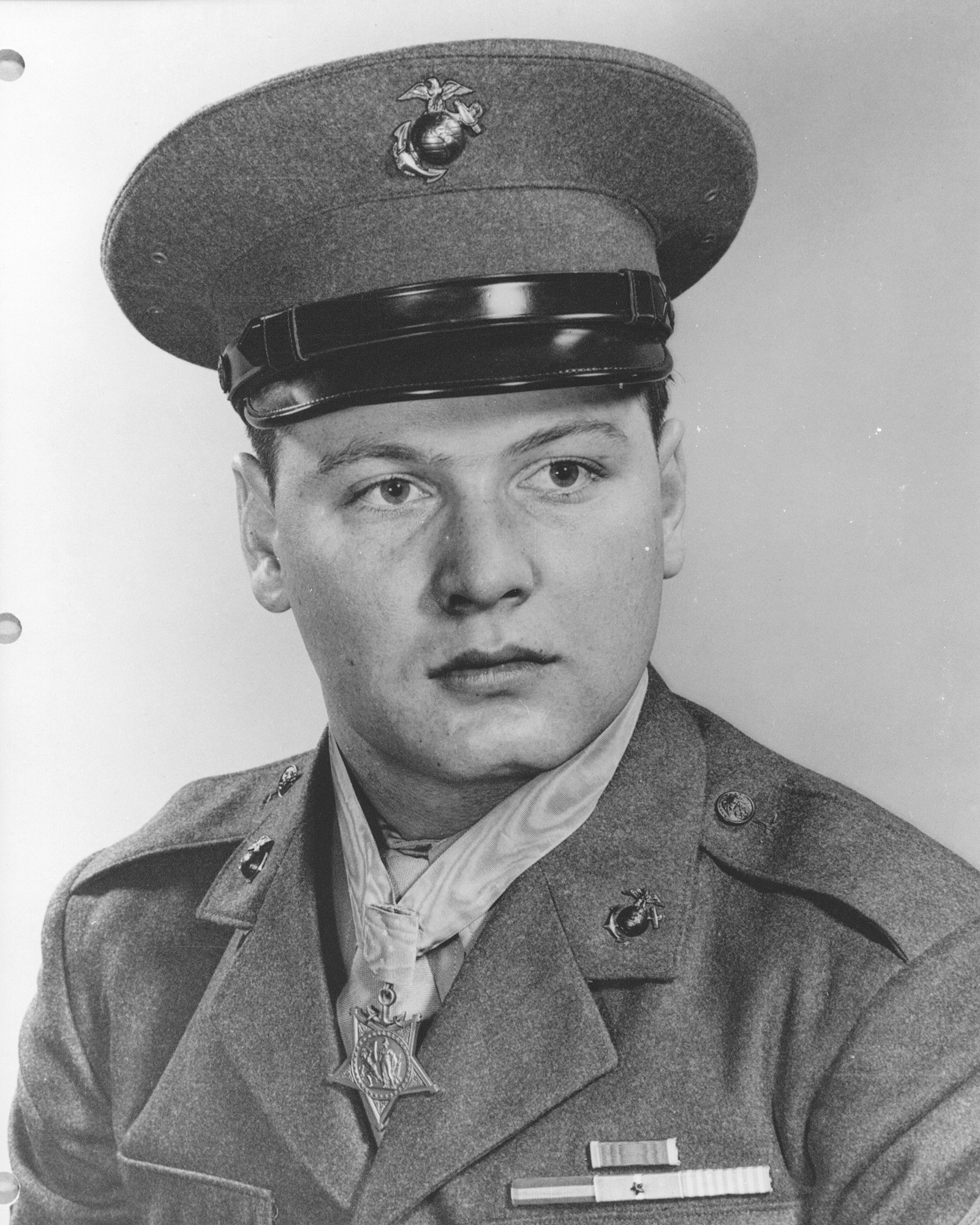 Corporal Duane E. Dewey, USMC, Medal of Honor recipient; hi-res image from Marine Corps History Division